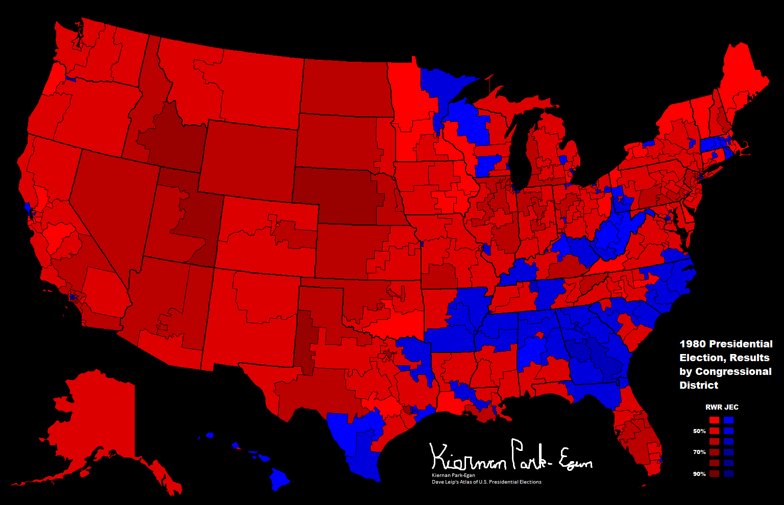 This map shows the results of the 1980 Presidential Election via Congressional District.